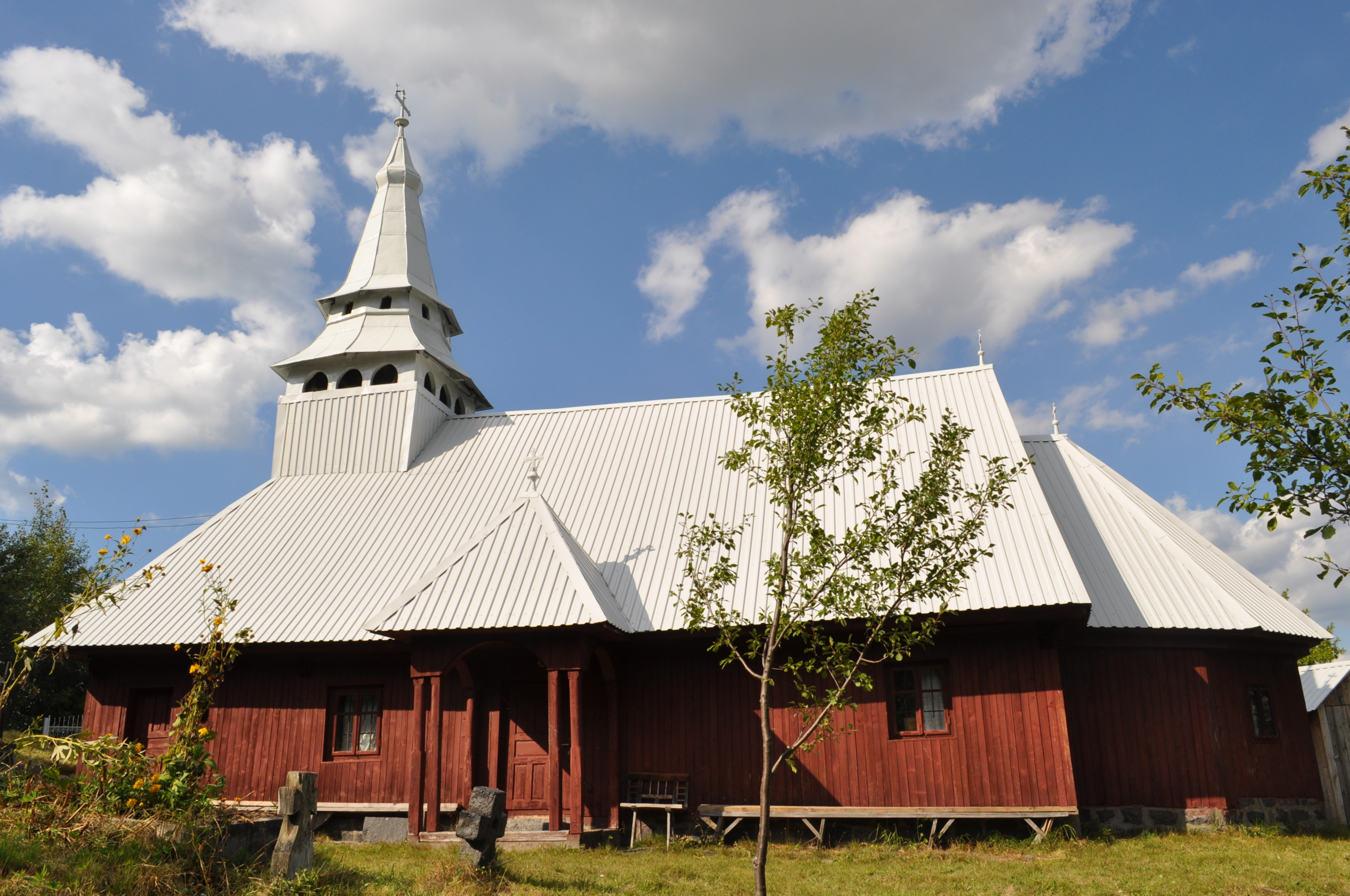 The wooden church in Tranișu, Cluj county, Romania